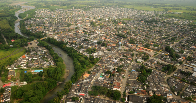 frances